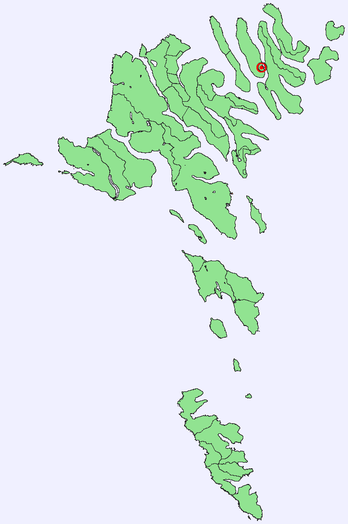 Position of Haraldssund in the Faroe Islands